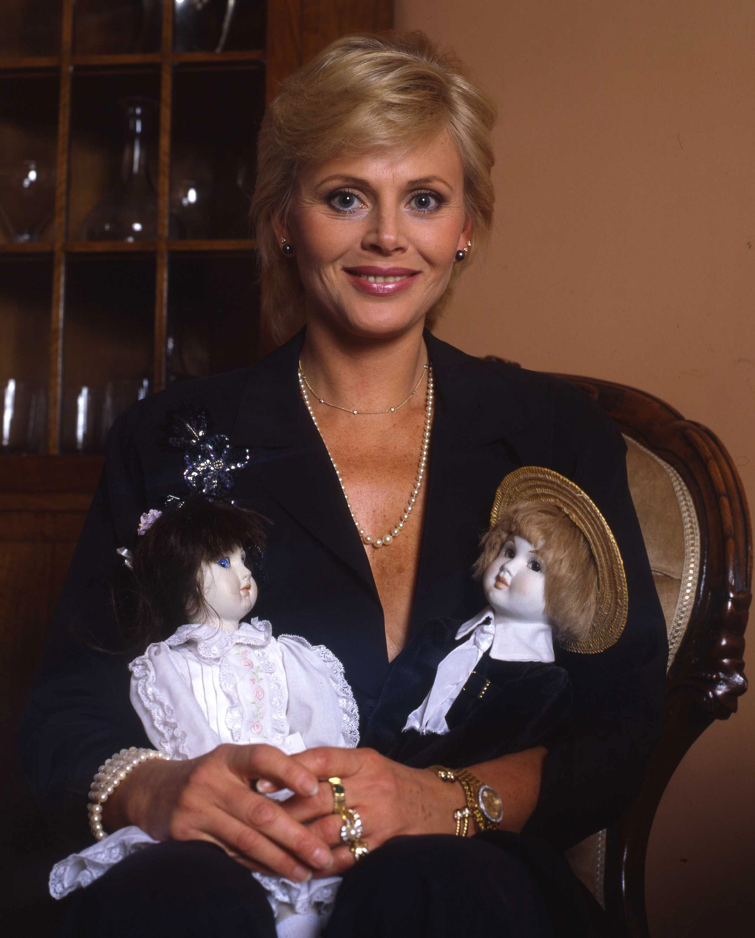 Britt Ekland at home in Chelsea London